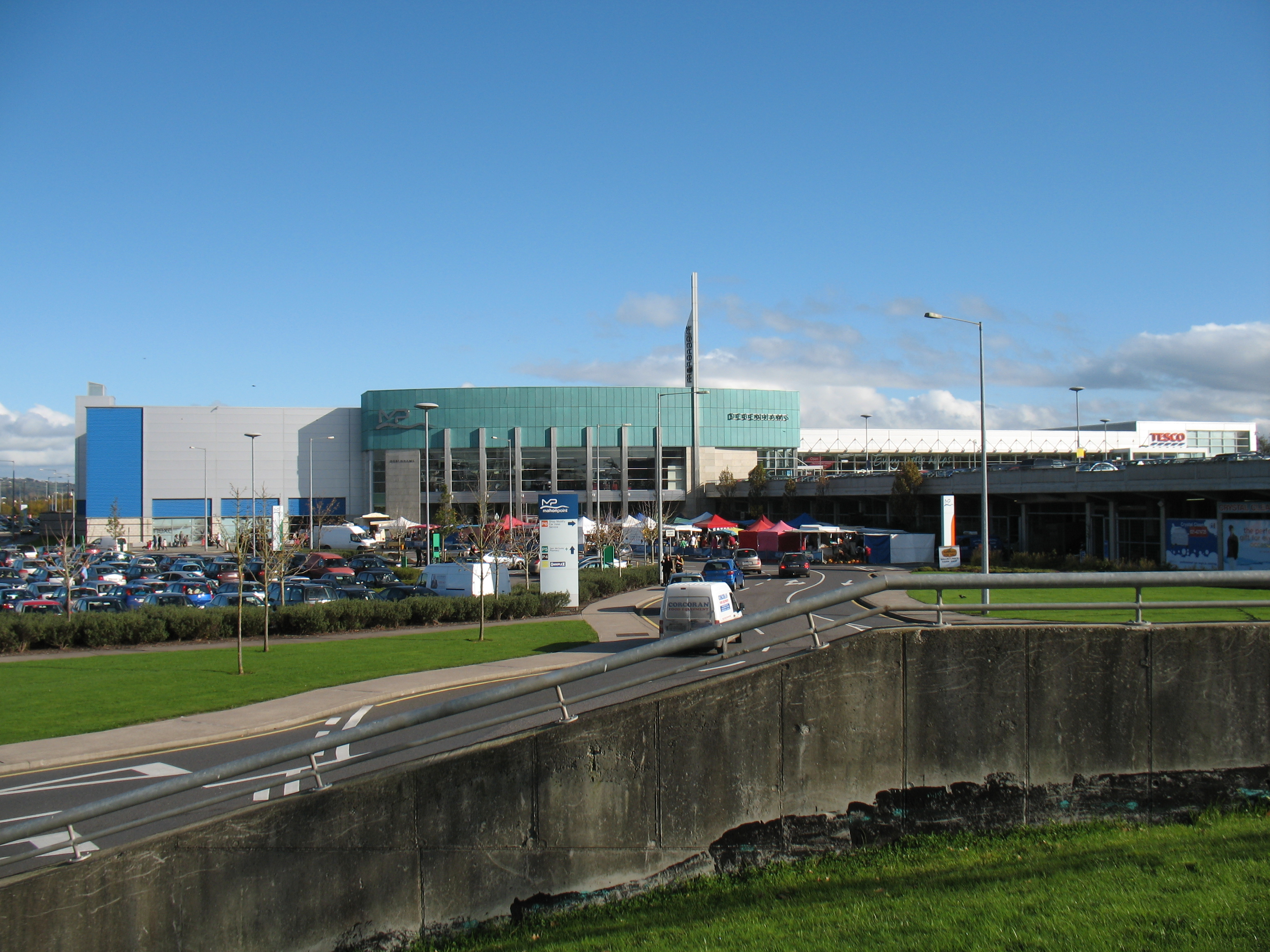 Mahon Point Retail Centre, with Farmers Market